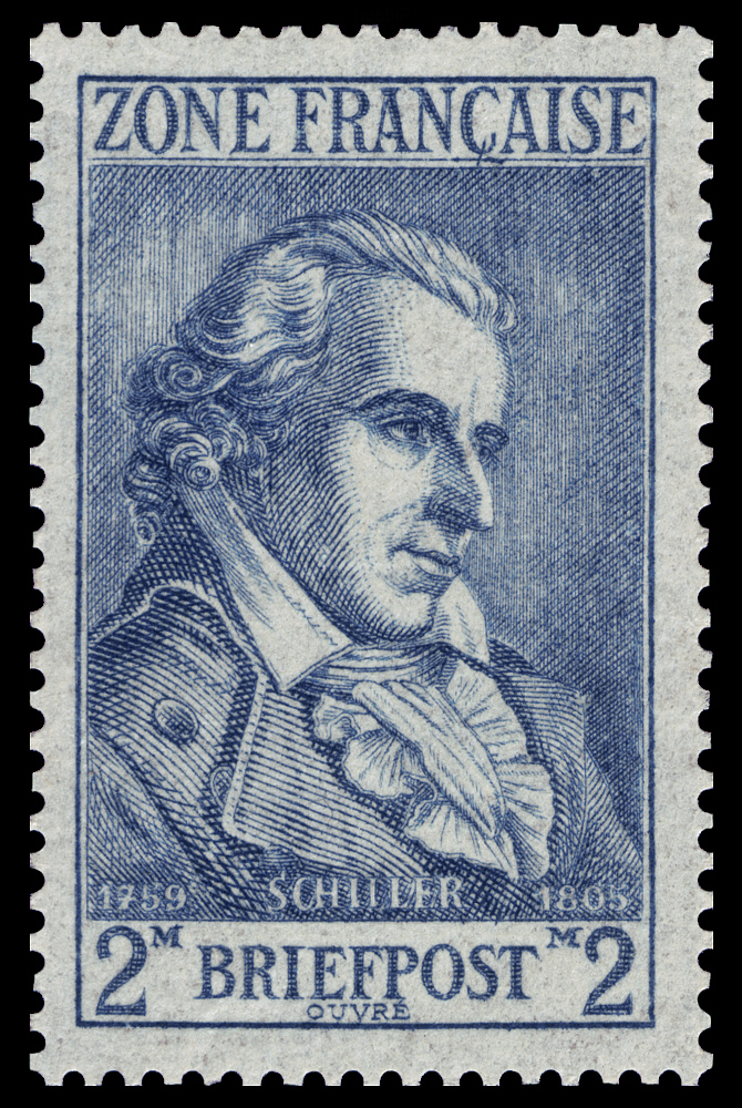 French occupied zone, coats of arms of the stats and German poets Ausgabepreis: 2 Mark First Day of Issue / Erstausgabetag: 1. April 1946 Michel-Katalog-Nr: 12 (Französische Besetzungszone)